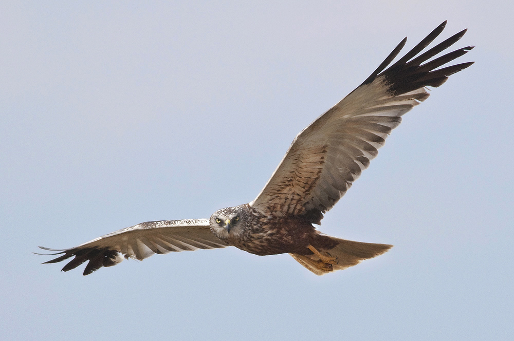 Western marsh Harrier (Circus aeruginosus), Alsønderup